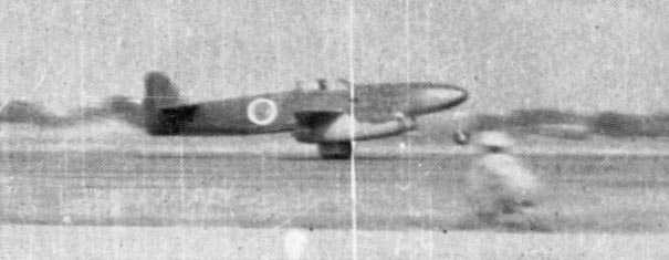 The second test flight of the Kikka. The plane used a booster on this test, and the nose turned to the top.